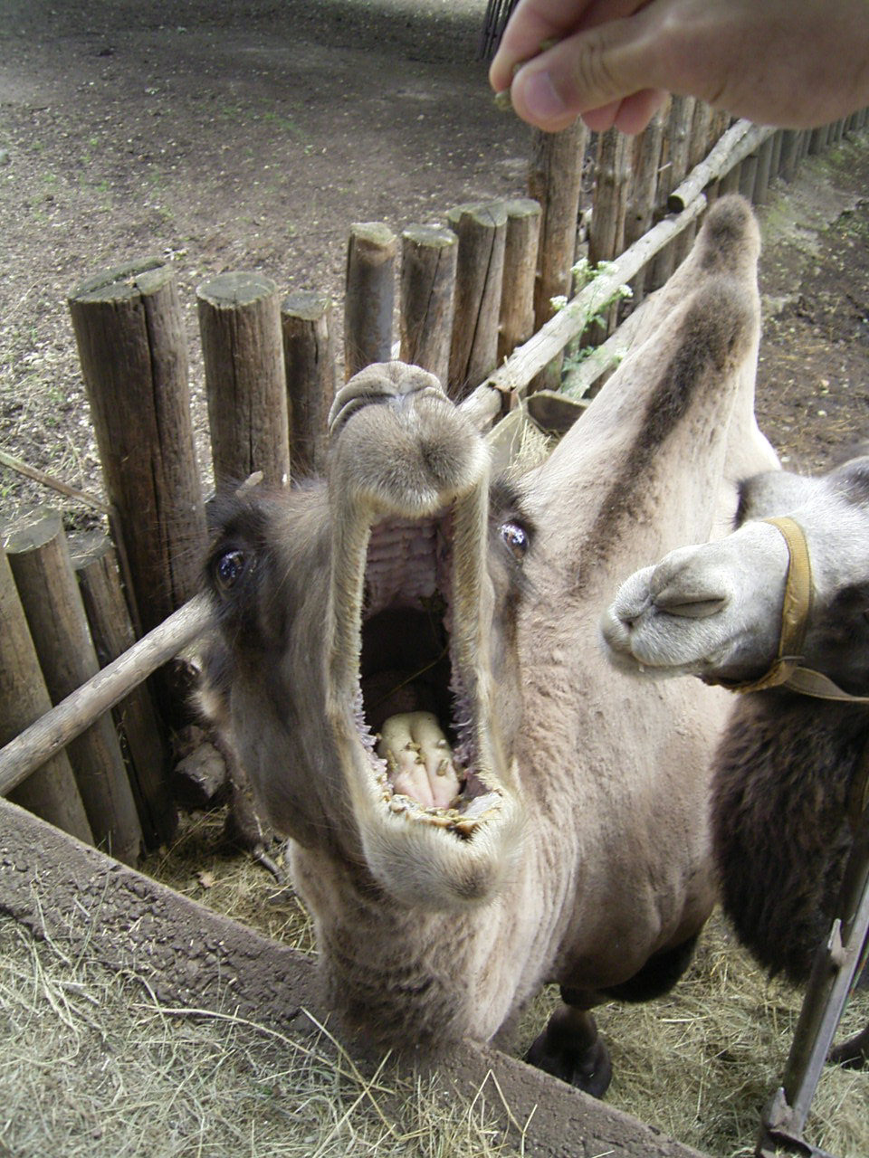 A camel in the zoo